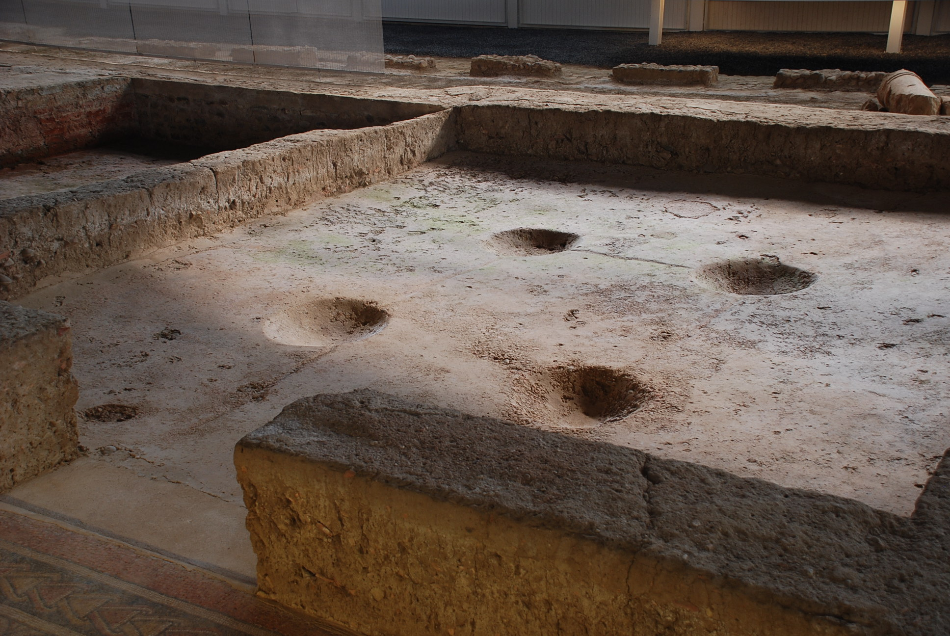 Roman Villa of La Olmeda in Pedrosa de la Vega (Palencia, Castile and León).